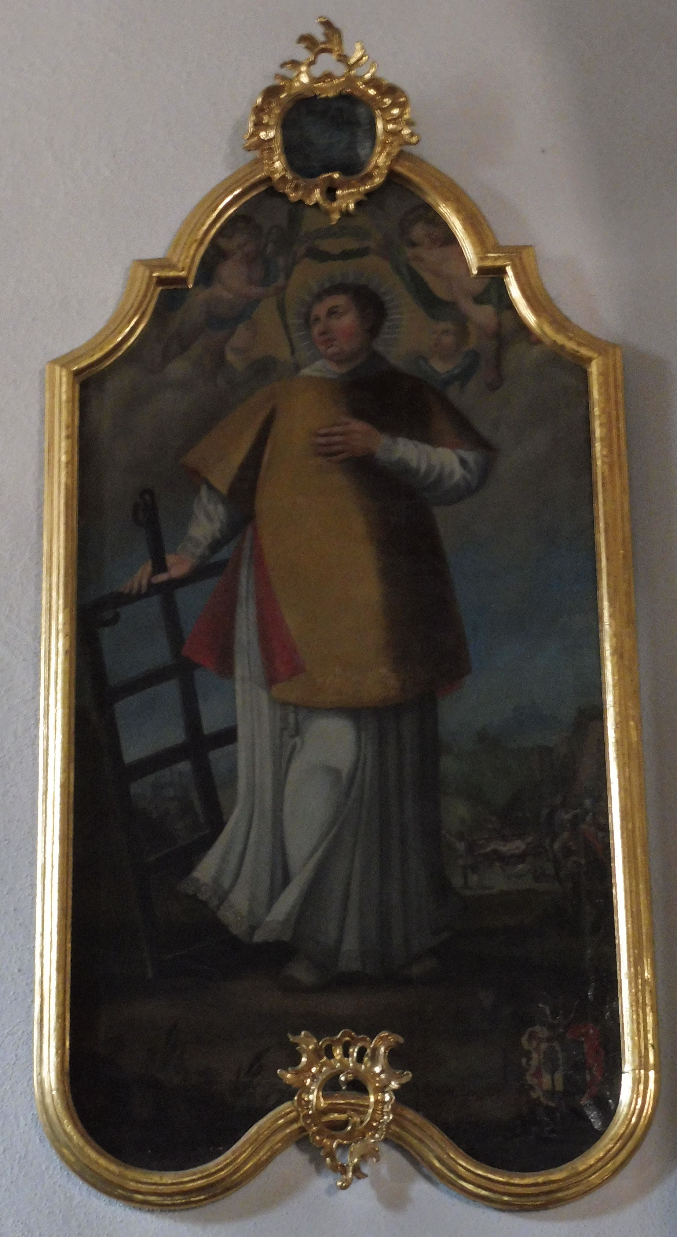 Wolfach, Baden-WÜrttemberg, St. Laurentius, Gemälde des ehemaligen Hochaltars